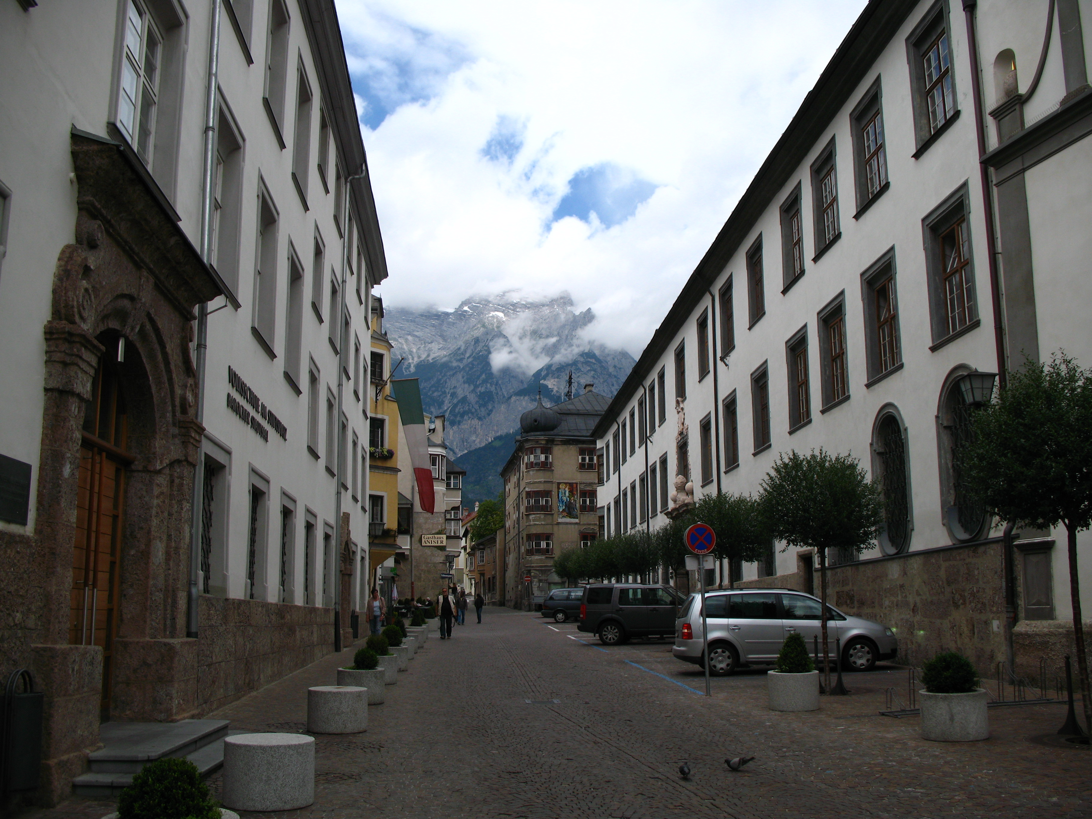 School Lane, Hall in Tirol, Austria